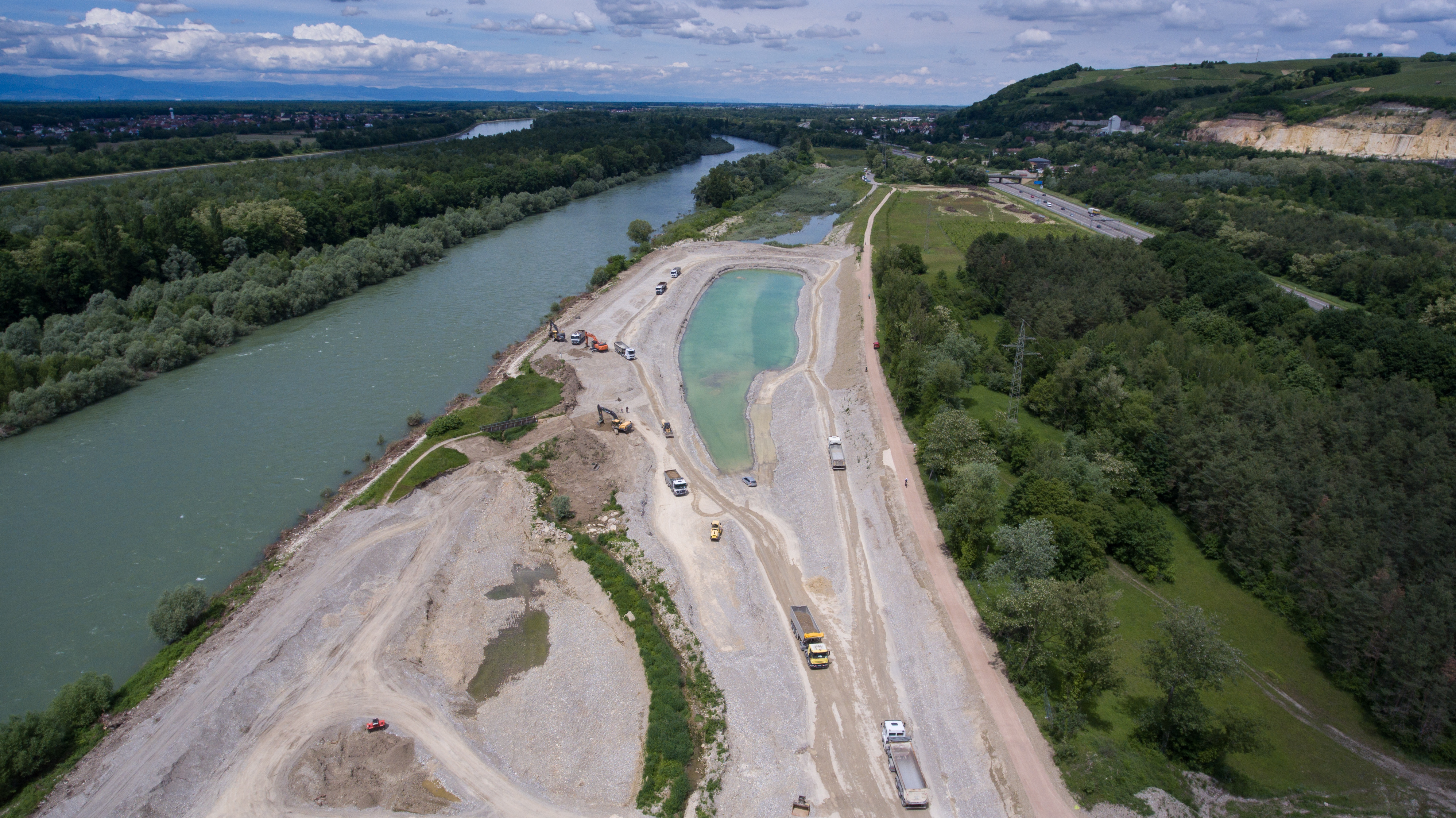 Aerial Integrated Rhine Programme (IRP)